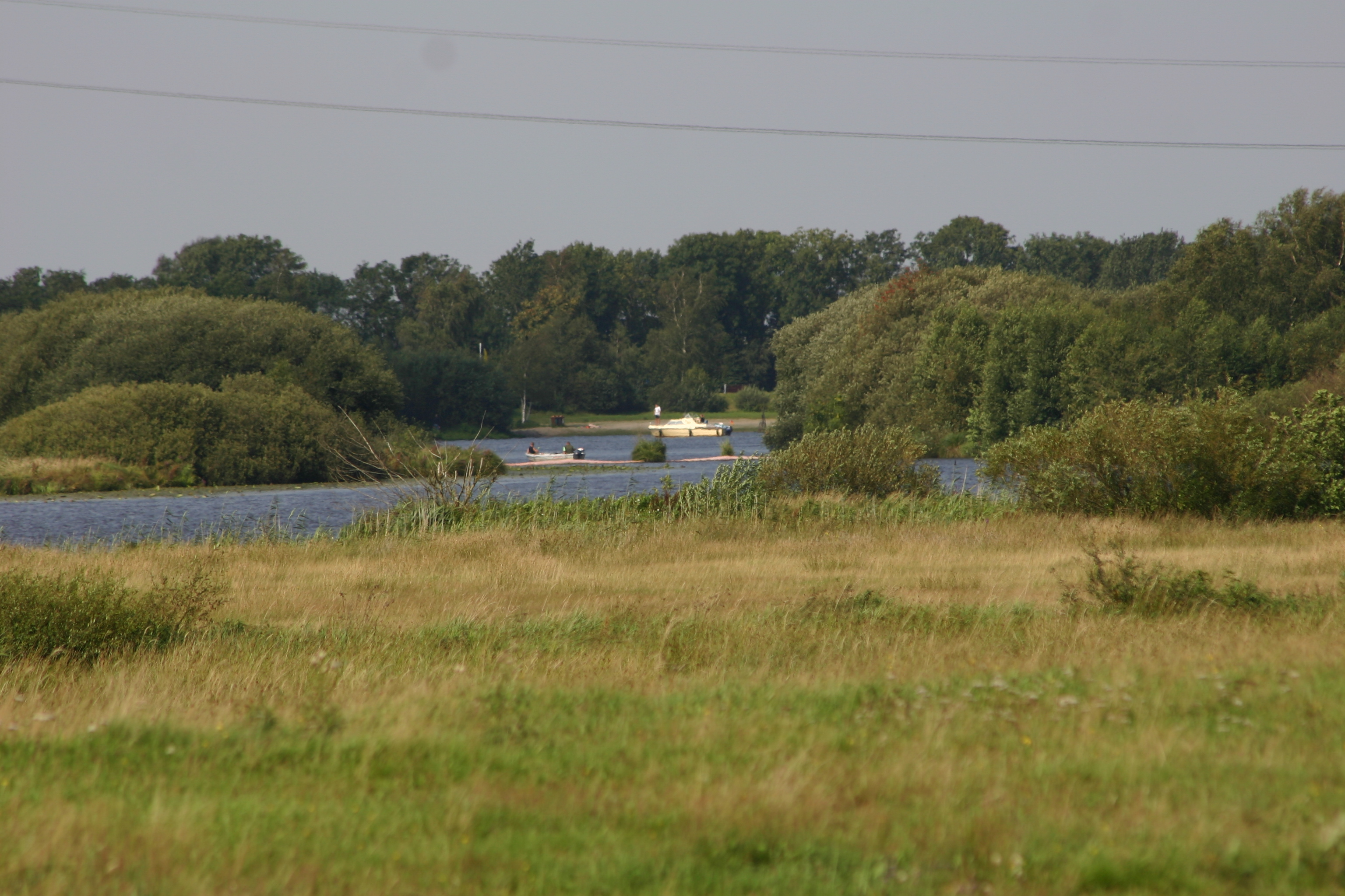 Boekzeteler Meer and Timmeler Meer, two lakes in East Frisia, Germany